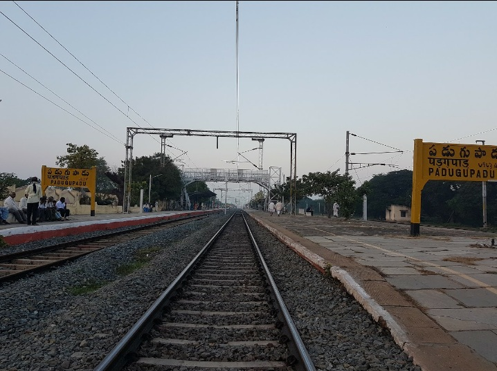 The railway station named padugupadu located in Kovur.